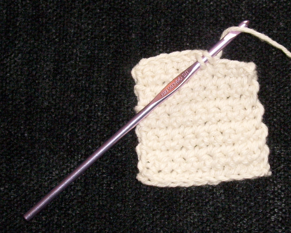 Demonstration of single crochet stitch (U.S. terminology).